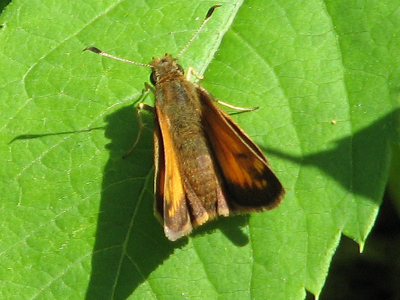 Hobomok Skipper (Poanes hobomok) taken in Mer Bleue Conservation Area, Ottawa, Ontario